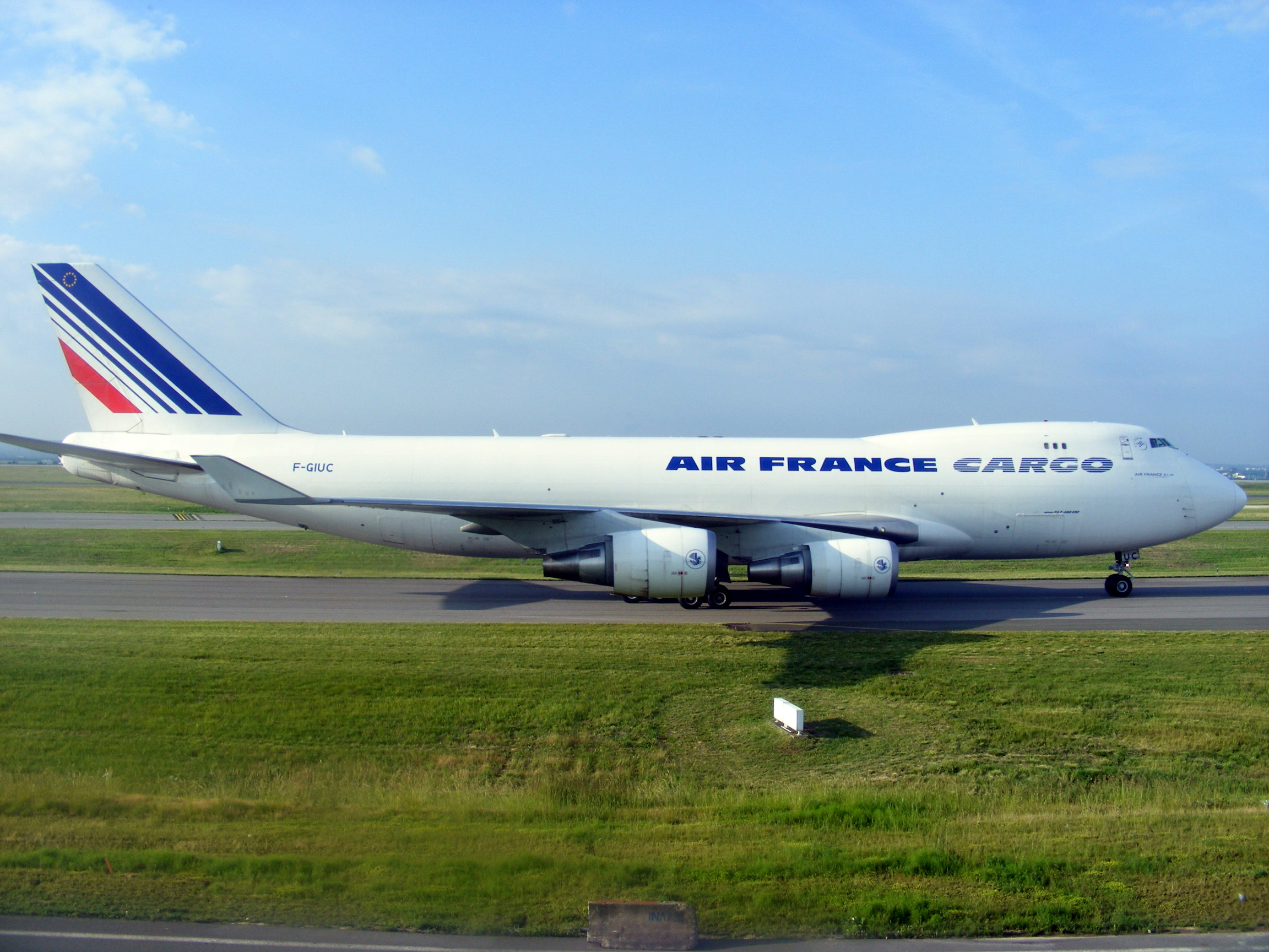 Air France Cargo Boeing 747-428ERF F-GIUC @ Paris CDG.